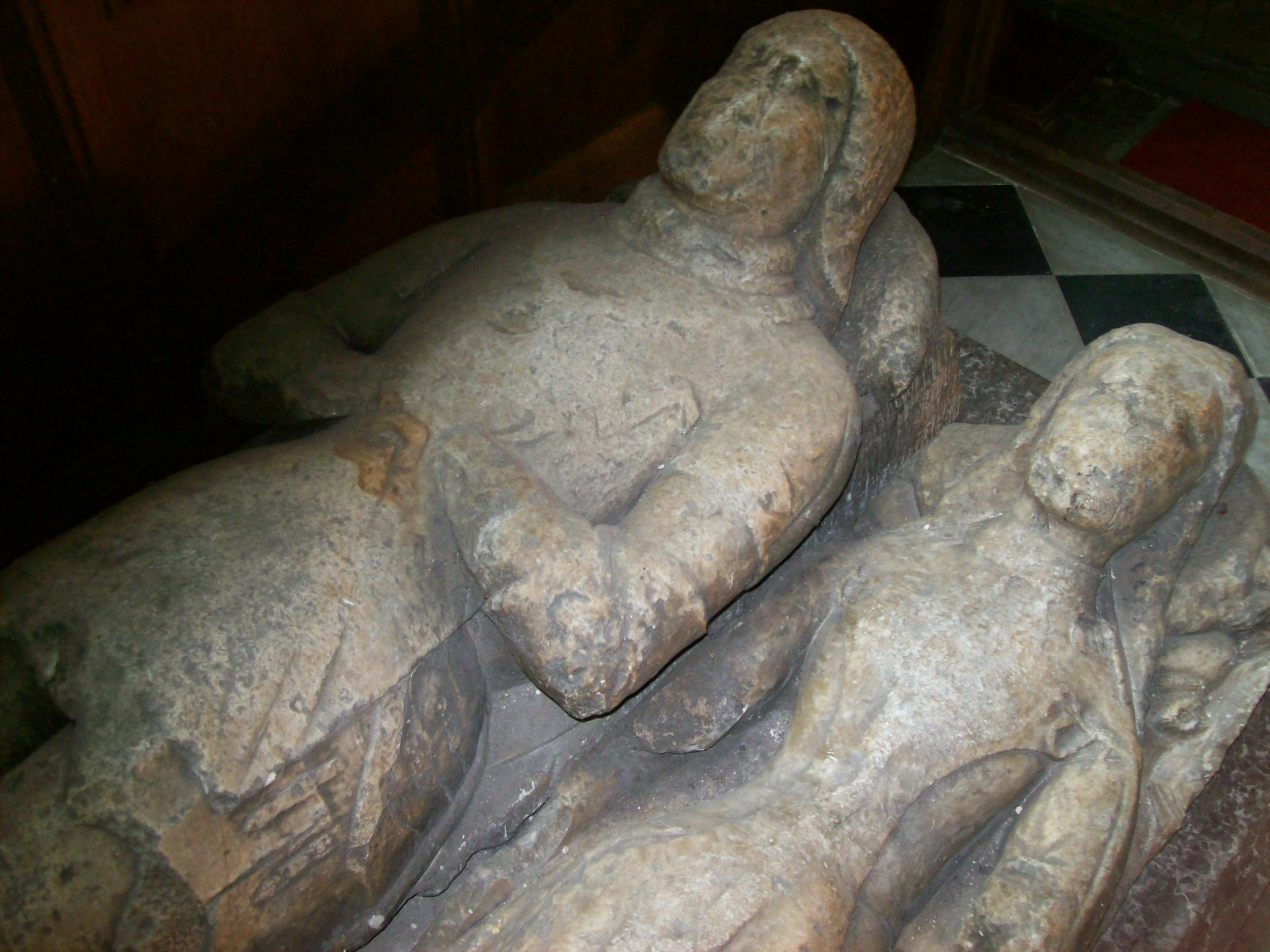 Stanley tombs in Ormskirk parish church